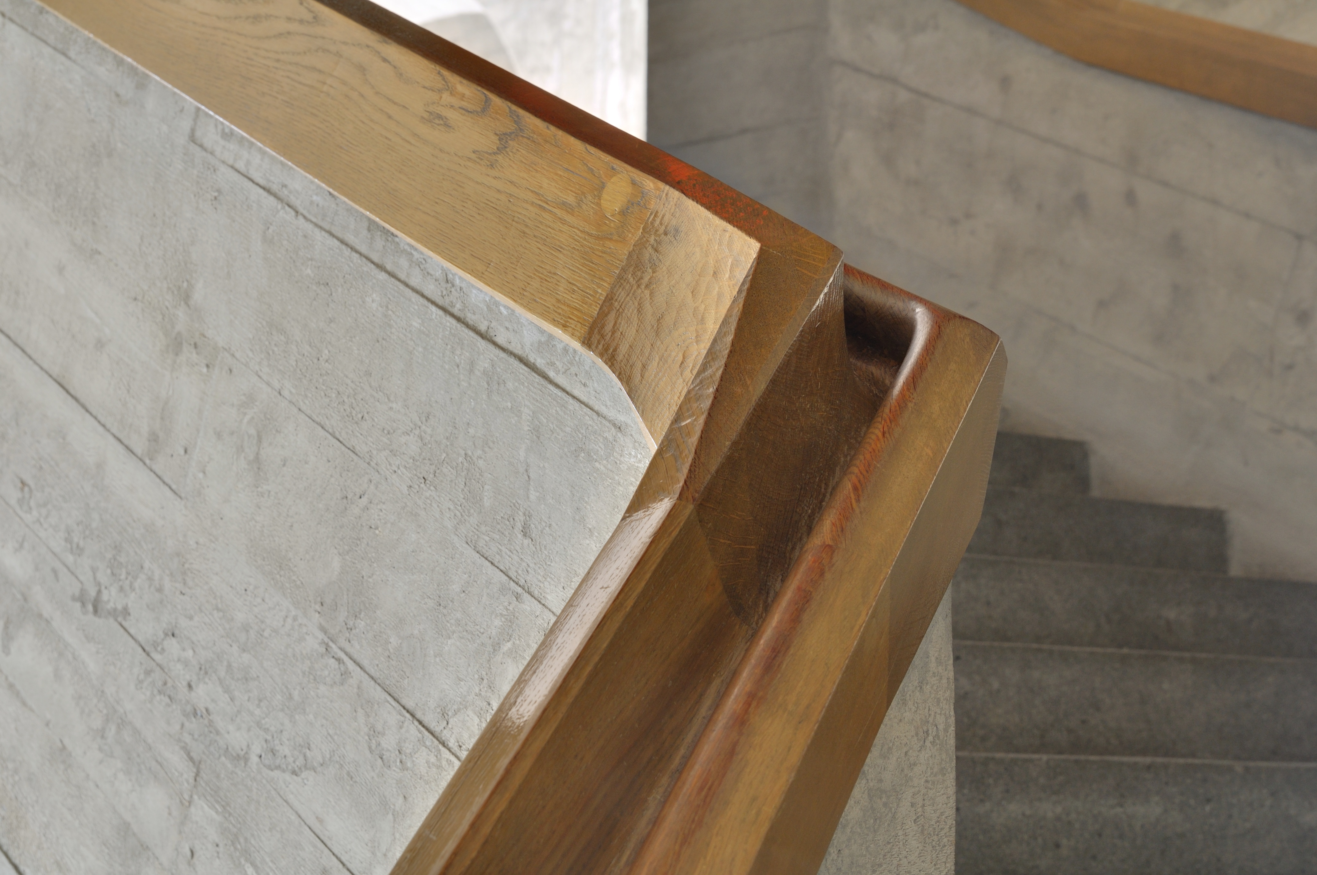 Goetheanum: western staircase, handrail